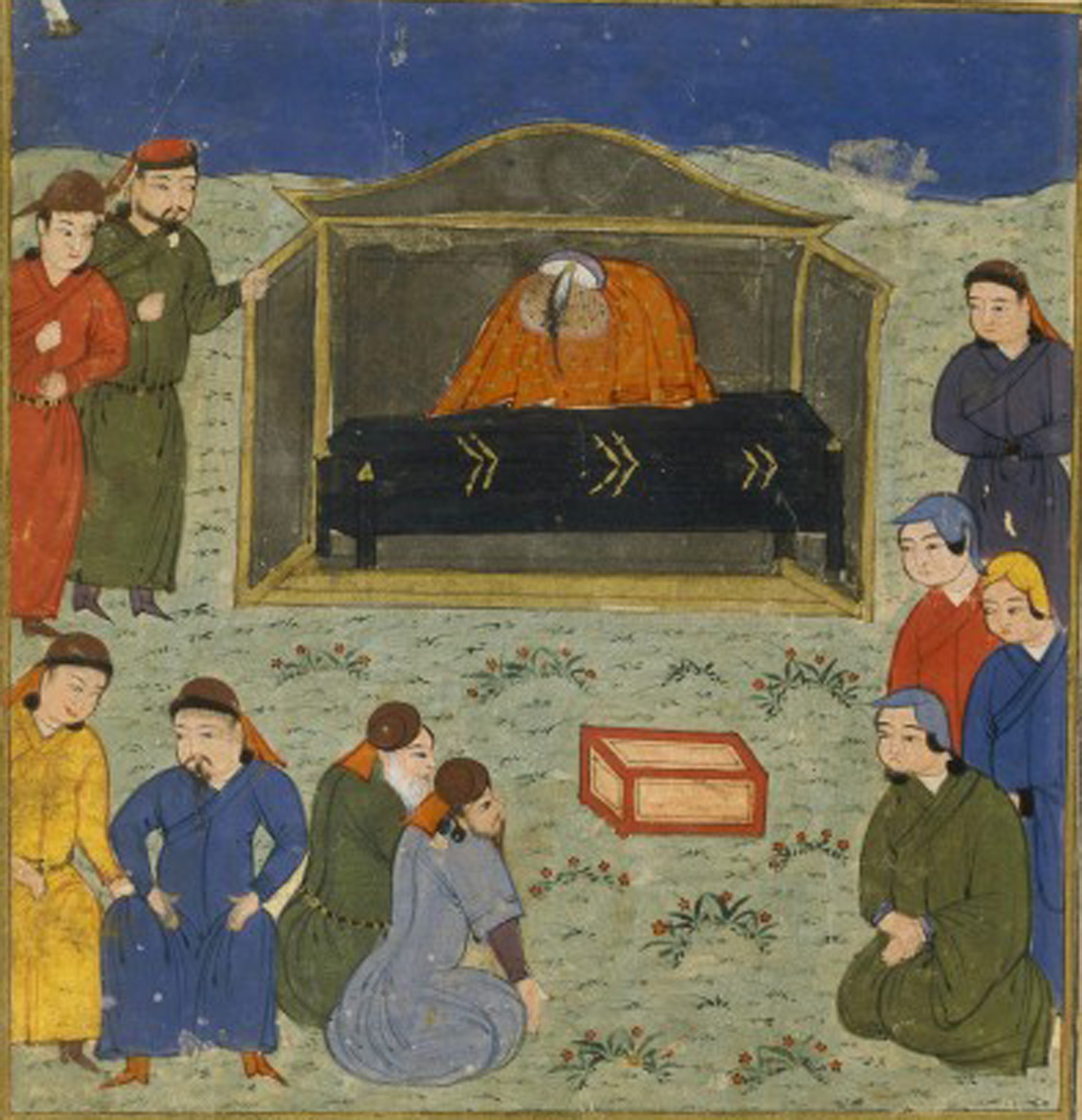 Funerals of Hulagu. Jami' al-tawarikh, Rashid al-Din.